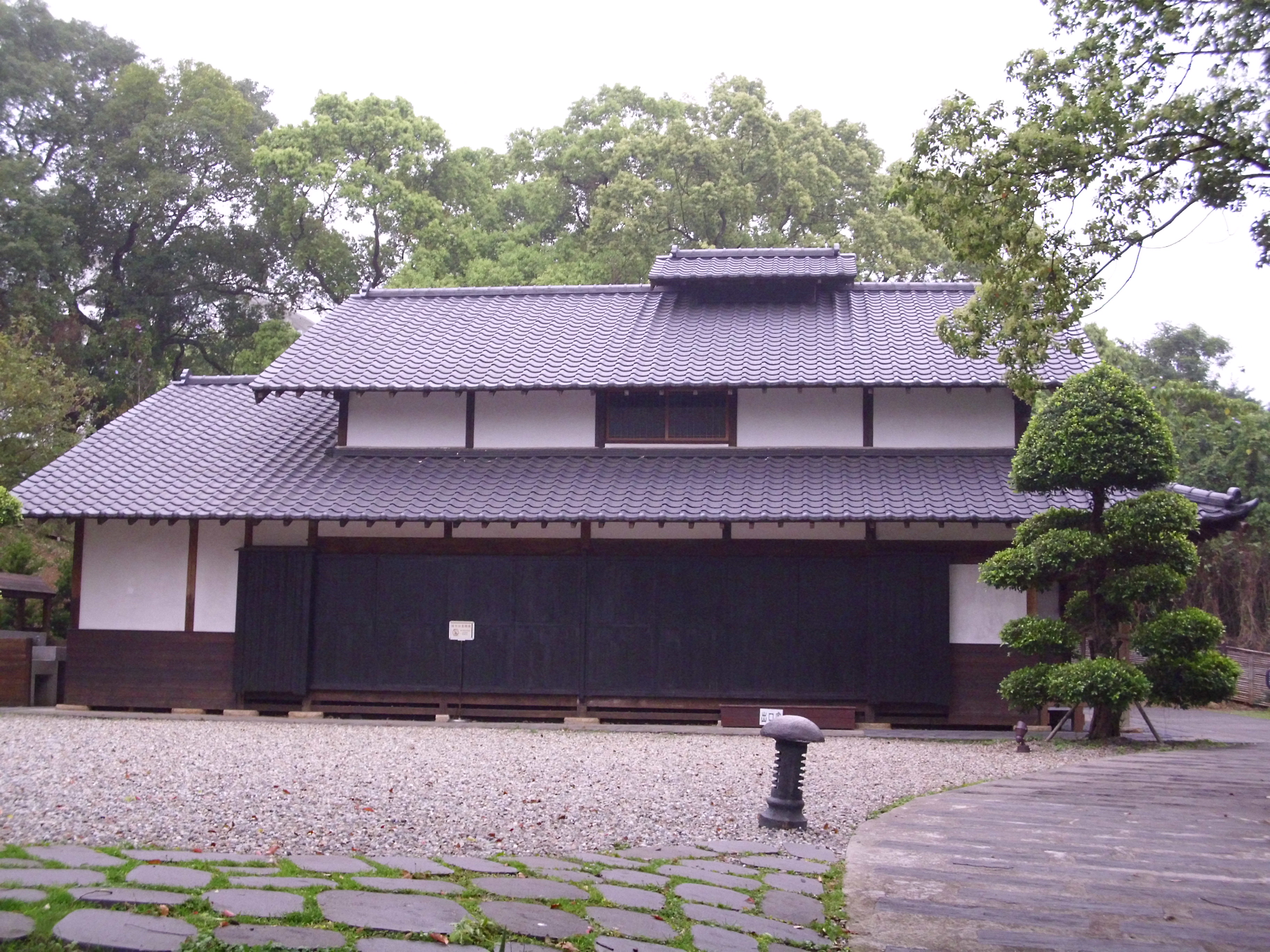 Drop of Water Memorial Hall